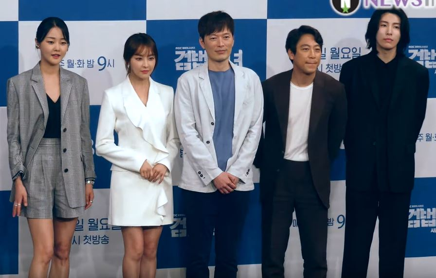 Partners for Justice 2 cast